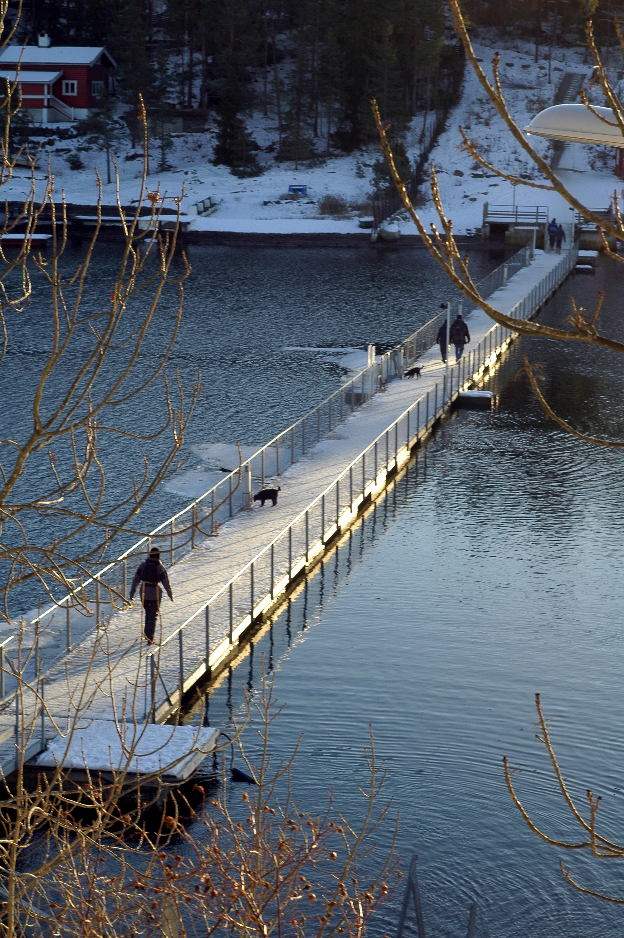 Pontoon bridge from Nesøya to Brønnøya, from Vendla to the northern section.